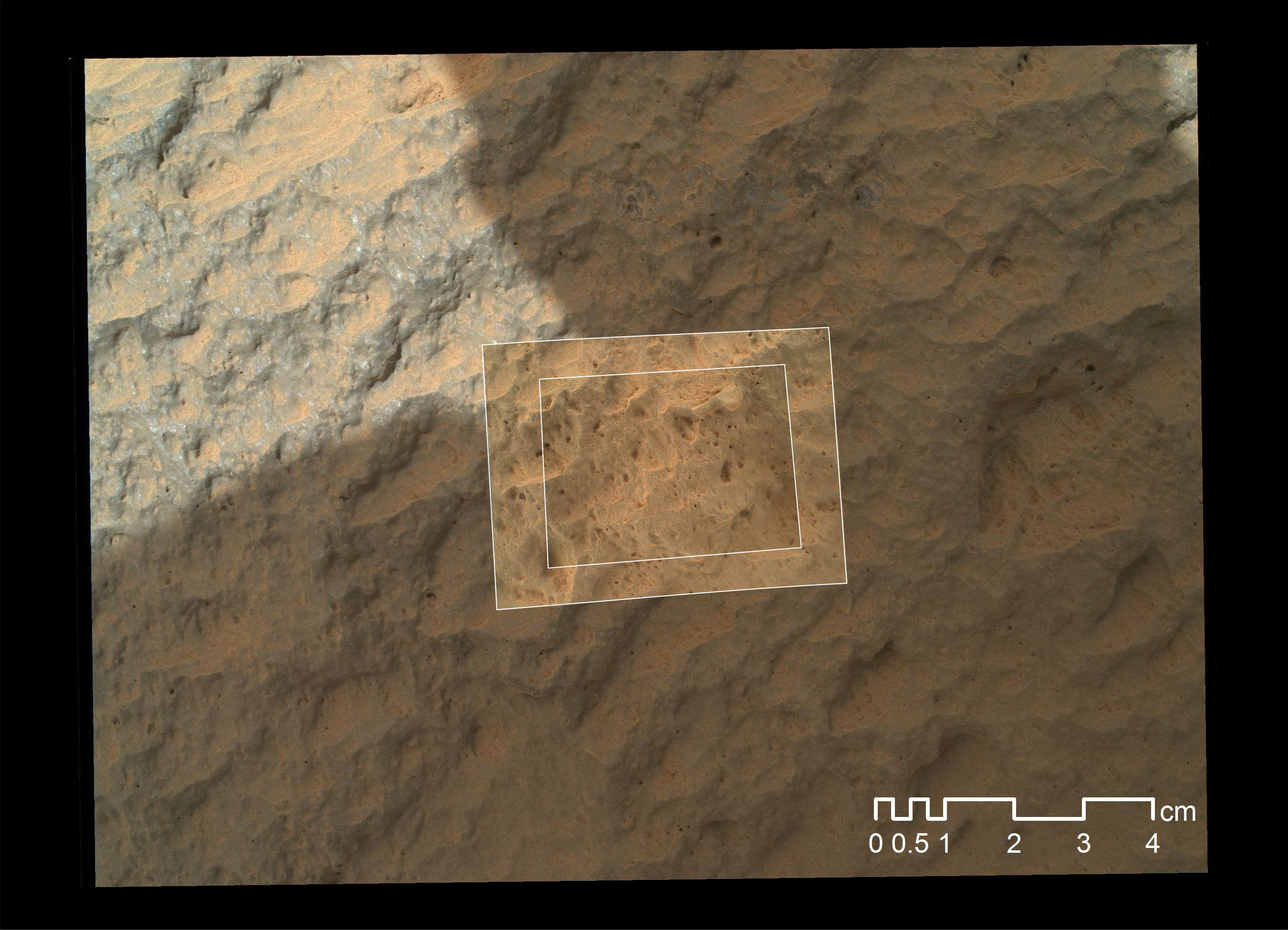 This image combines photographs taken by the Mars Hand Lens Imager (MAHLI) at three different distances from the first Martian rock that NASA's Curiosity rover touched with its arm. The three exposures were taken during the 47th Martian day, or sol, of Curiosity's work on Mars (Sept. 23, 2012). The team has named the target rock "Jake Matijevic." The scale bar is 4 centimeters (1.6 inches). MAHLI imaged Jake Matijevic from distances of about 10 inches, or 25 centimeters (context image); about 2 inches, or 5 centimeters (larger white box); and about 1 inch, or 2.5 centimeters (smaller white box). The series nested into this one image takes advantage of MAHLI's adjustable focus. MAHLI reveals that the target rock has a relatively smooth, gray surface with some glinty facets reflecting sunlight and reddish dust collecting in recesses in the rock. Jake Matijevic is a dark, apparently uniform rock that was selected as a desirable target because it allowed the science team to compare results of the Alpha Particle X-Ray Spectrometer (APXS) instrument and the Chemistry and Camera (ChemCam) instrument, both of which provide information about the chemical elements in a target. APXS, like MAHLI, is on the turret at the end of Curiosity's robotic arm. It is placed in contact with a rock to take a reading. ChemCam shoots laser pulses at a target from the top of the rover's mast. Jake Matijevic was also the first rock target for MAHLI, which was deployed to document the APXS and ChemCam analysis areas. JPL manages the Mars Science Laboratory/Curiosity for NASA's Science Mission Directorate in Washington. The rover was designed, developed and assembled at JPL, a division of the California Institute of Technology in Pasadena. For more about NASA's Curiosity mission, visit: and